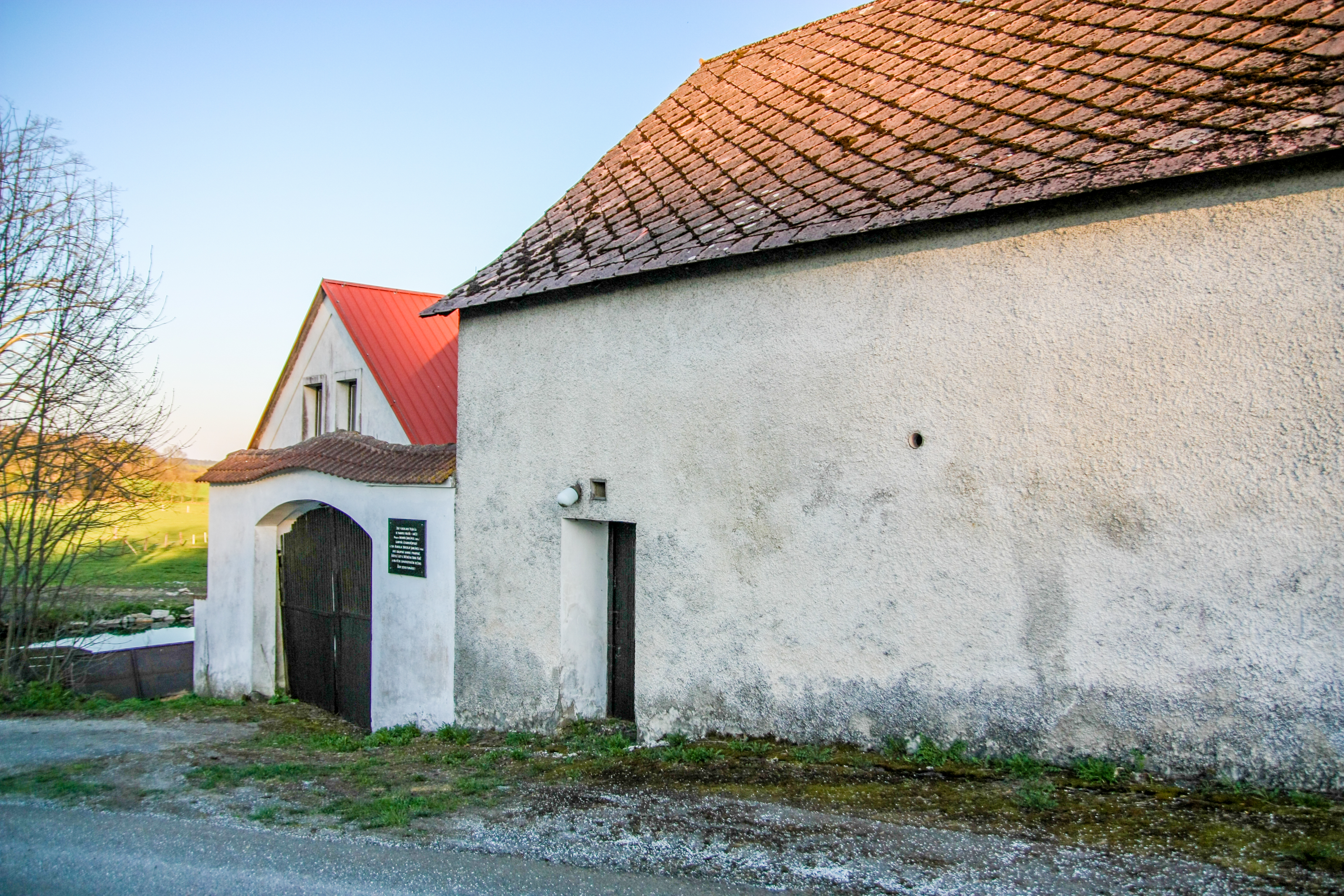 Homestead in municipality Vilín, Písek District, South Bohemian Region, Czechia